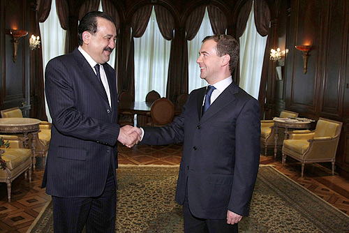 GORKI, MOSCOW REGION. With Prime Minister of Kazakhstan Karim Massimov.